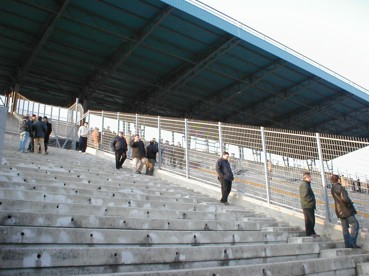 Former Casaleno Stadium (now Benito Stirpe Stadium), 2004